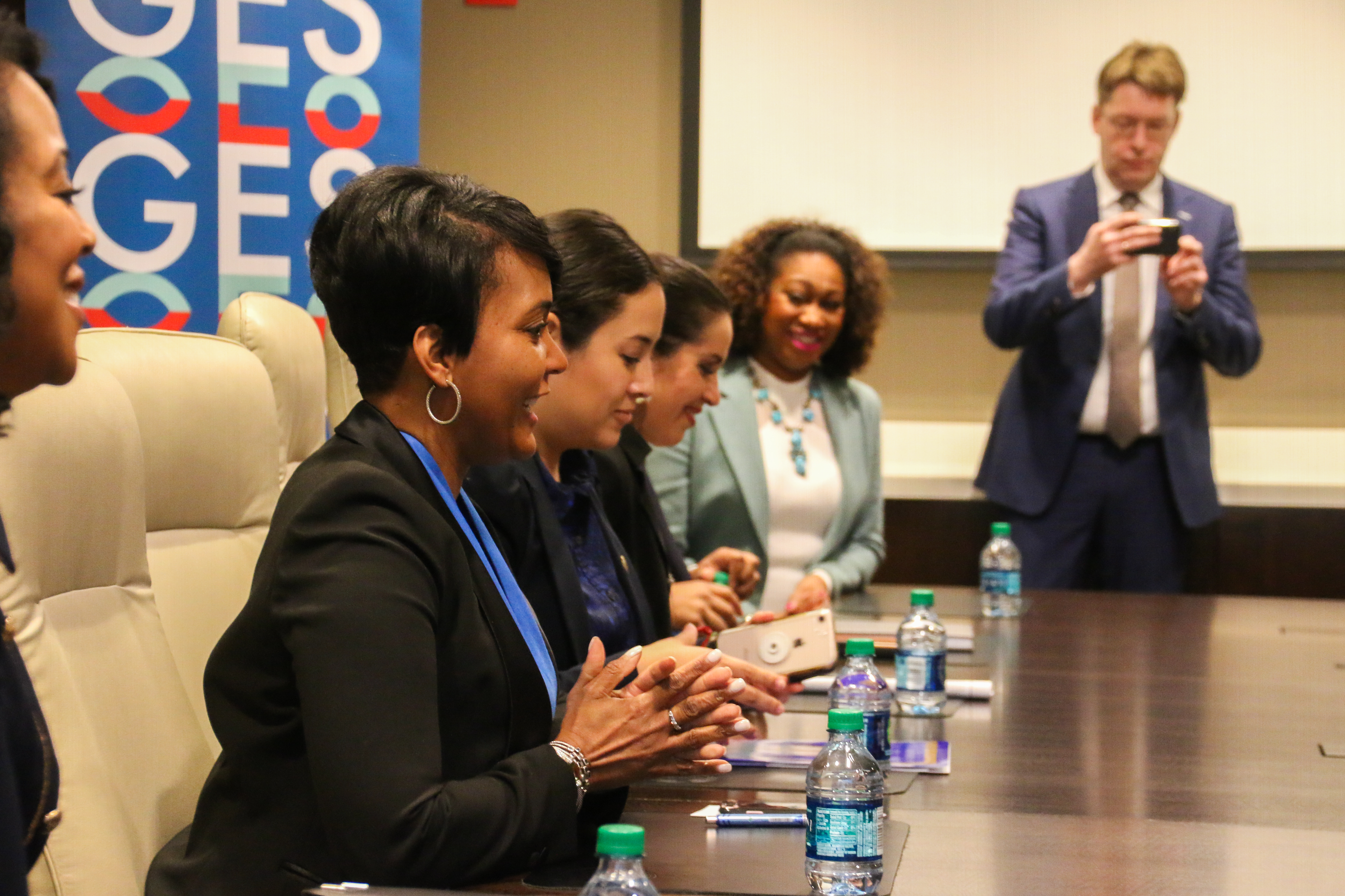 NLinAtlanta - Visit Minister Sigrid Kaag to Atlanta City Hall in Georgia, meeting with Mayor Keisha Lance Bottoms, March 27, 2019 - (c) Celine Admiraal, CAPhotoVision.